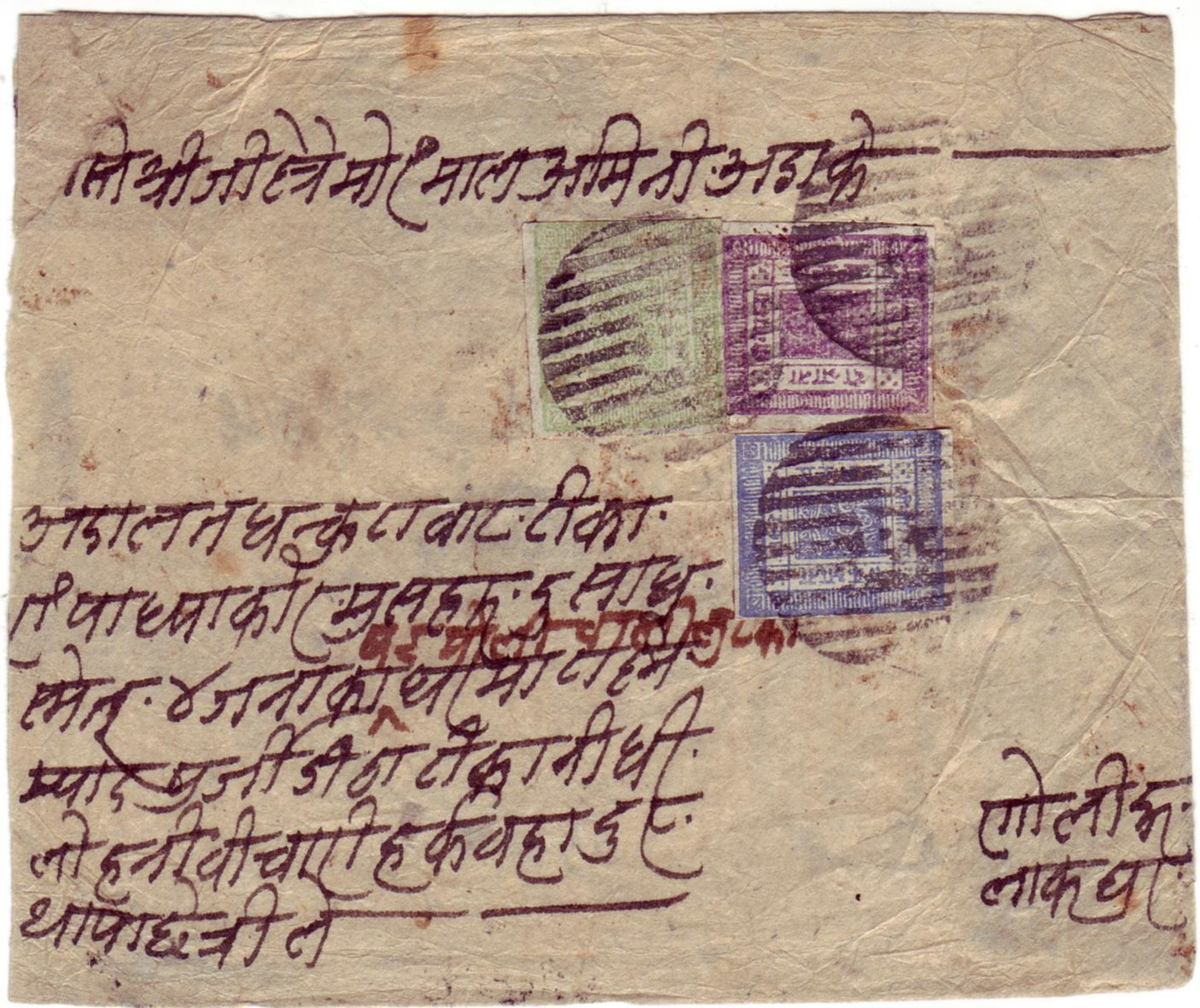 An 1881 cover of Nepal showing the first stamps of that country.